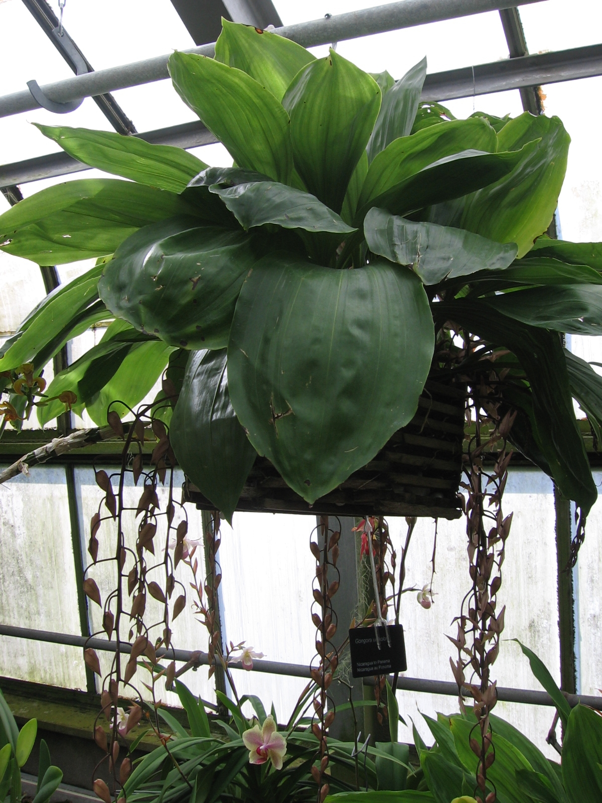 Gongora unicolor, habitus, Jardin botanique de Montréal.